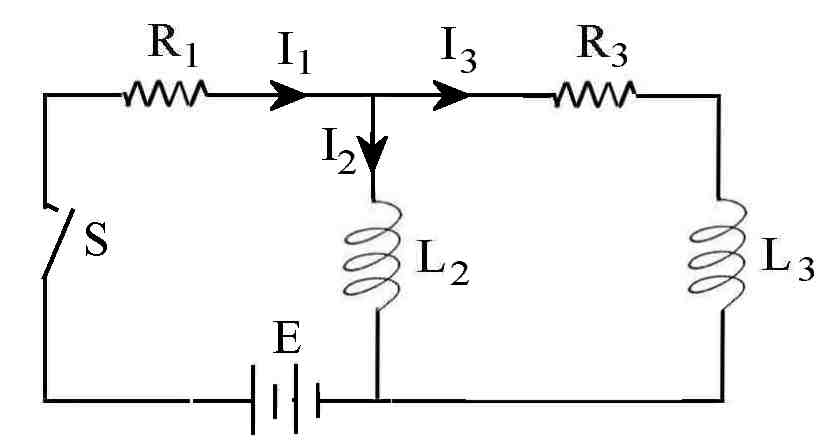 simple diagram of rcl electric circuit